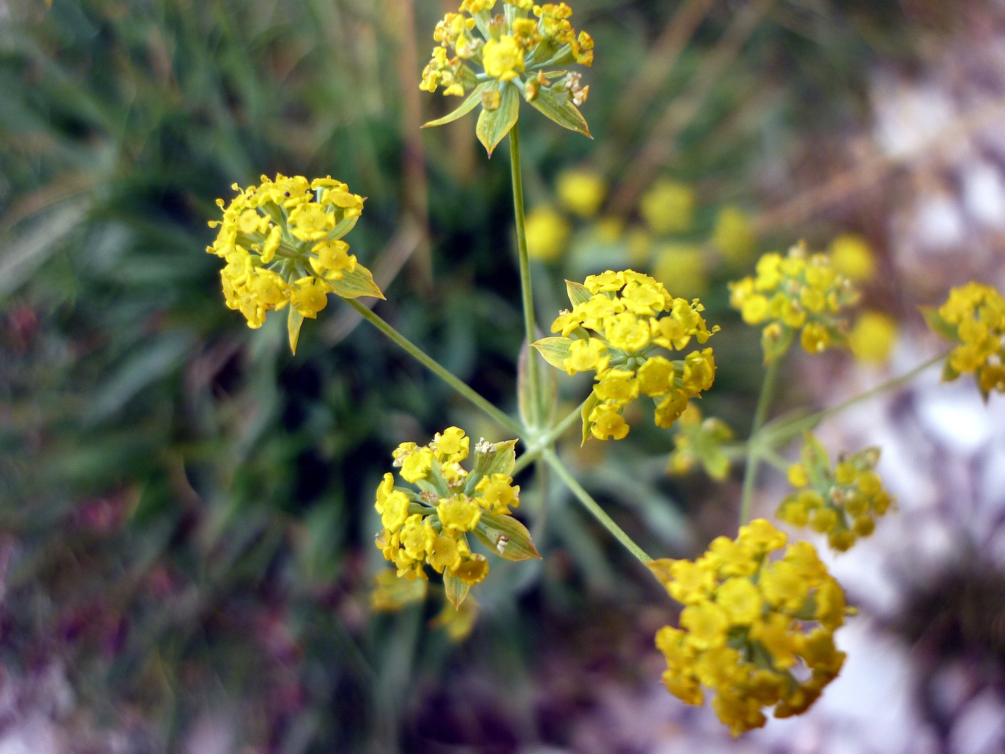 Bupleurum ranunculoides. In la Bòfia, Guixers (Solsonès - Catalunya). To 1.960 m. altitude